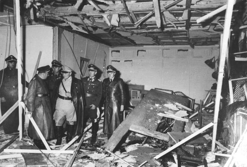 20 july attenat The view of destroyed interior of briefing room in Hiler's headquatter Wolfsschanze near Rastenburg (Ketrzyn) in East Prussia. (from left to right Heinz Linge, Martin Bormann, Julius Schaub, Hermann Göring, Bruno Loerzer, unknown.)